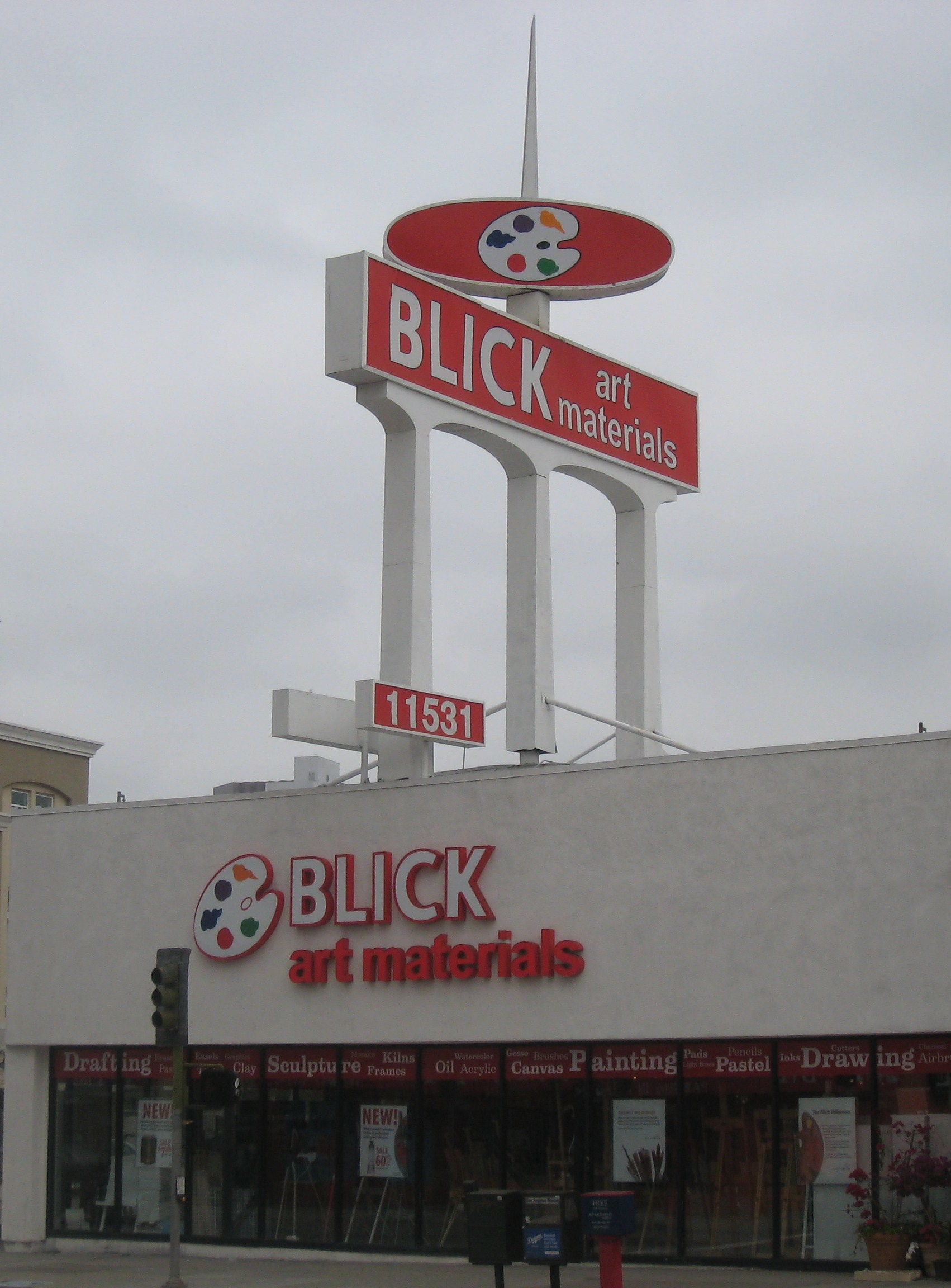 Blick Art Supplies building on Santa Monica Boulevard in Los Angeles, California